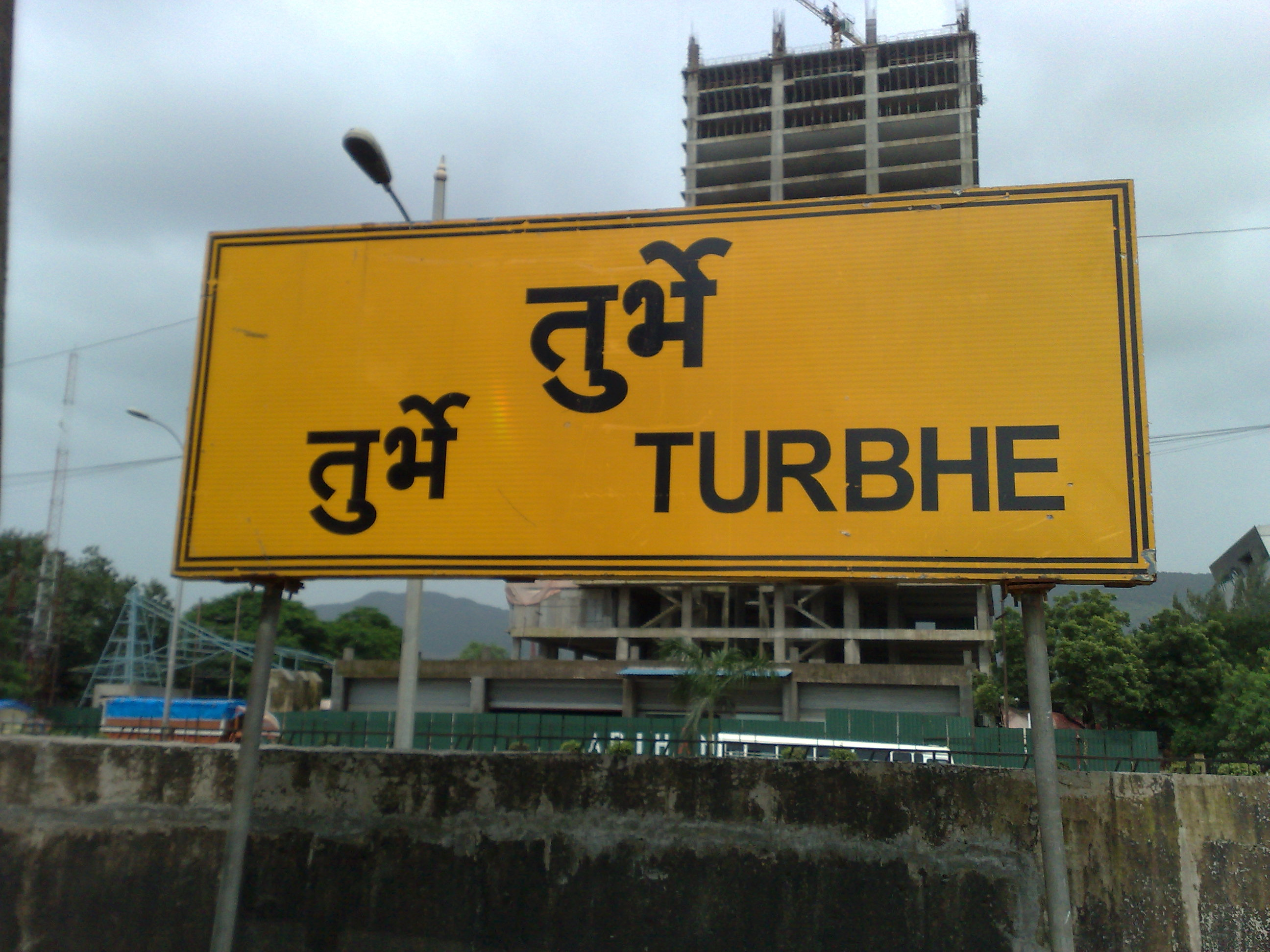 Stationboard - Turbhe